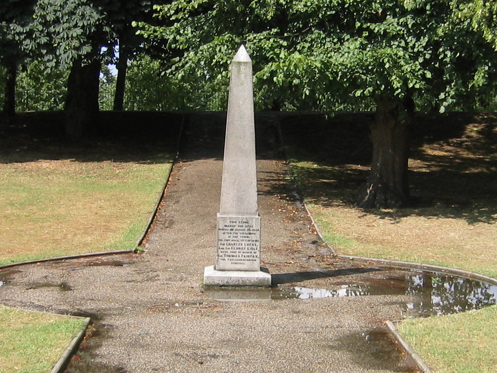 Deben Dave (talk) 20:25, 13 June 2009 (UTC)